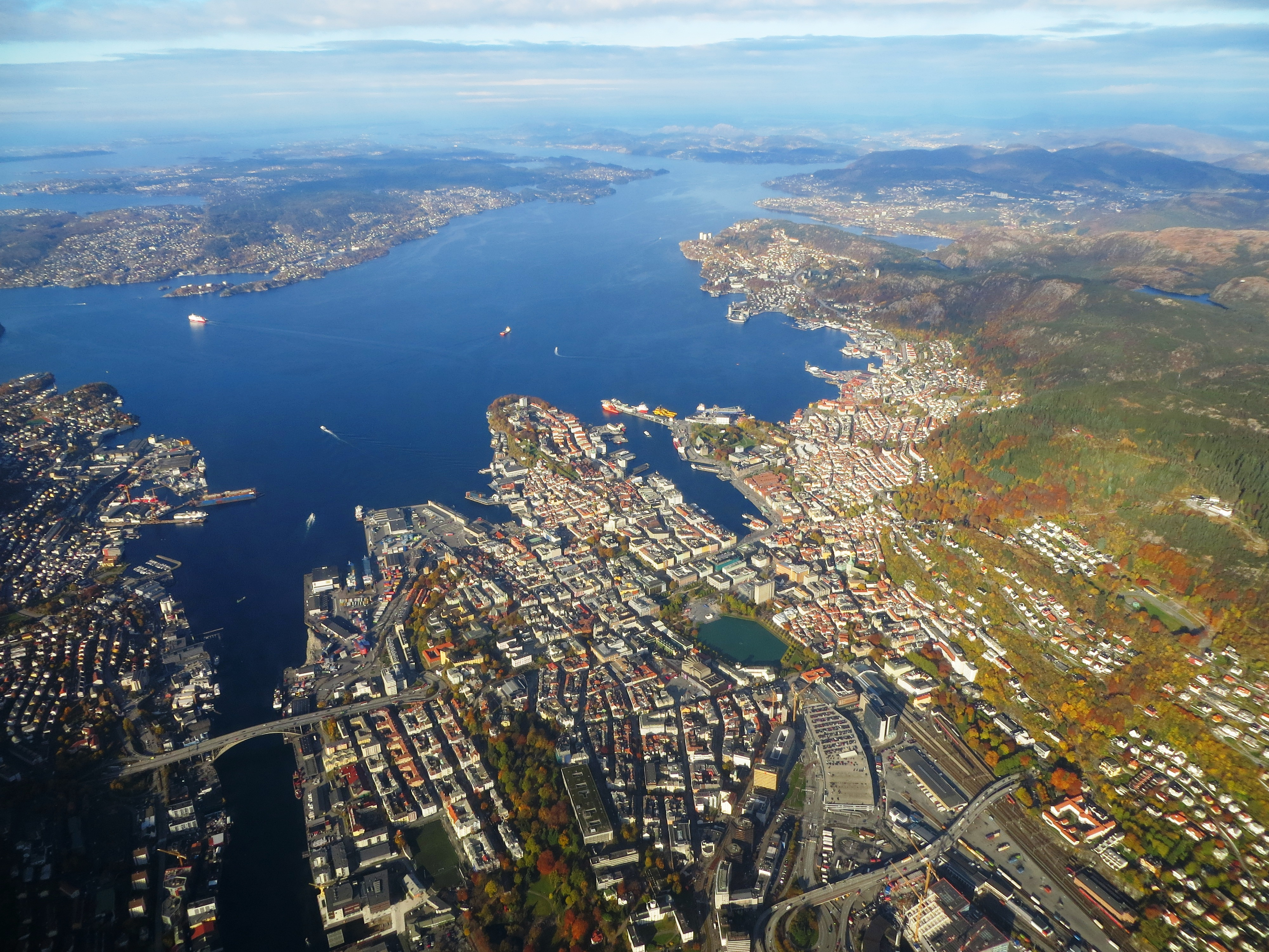 Aerial view of central Bergen, Norway.